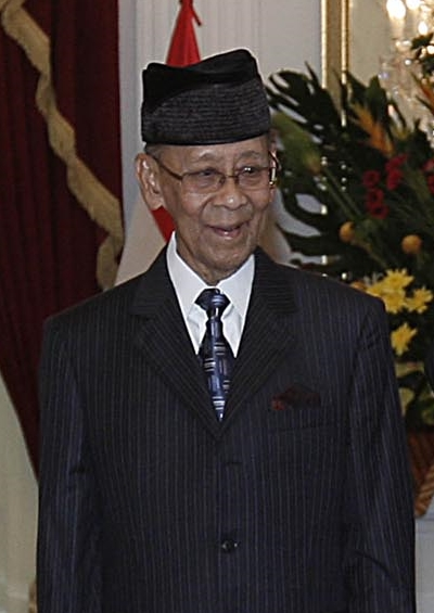 Abdul Halim of Kedah, the 14th Yang di-Pertuan Agong of Malaysia and 27th Sultan of Kedah.